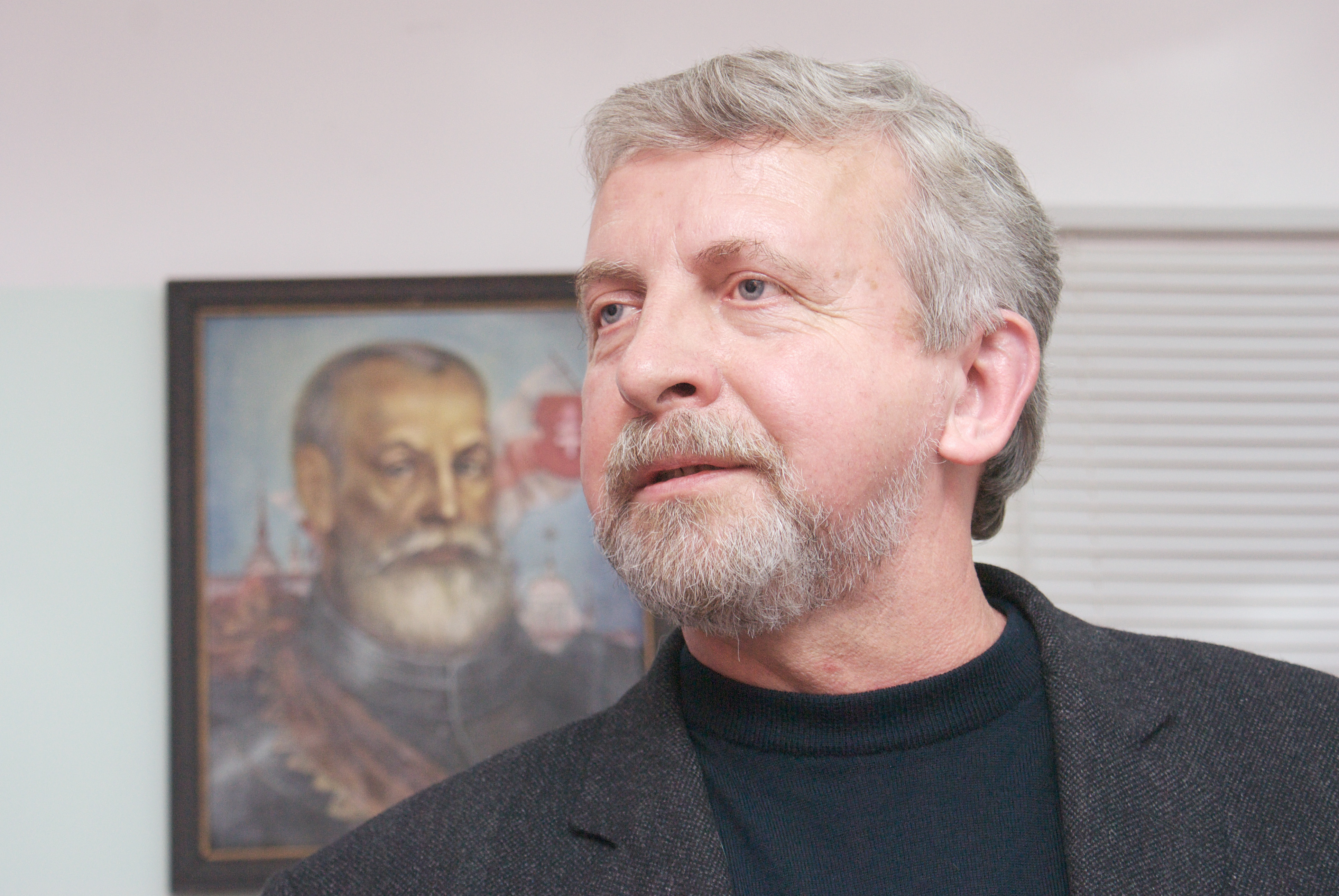 Aliaxandr Milinkevich